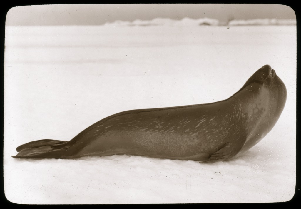 The rare Ross seal [Australasian Antarctic Expedition, 1913-1914].